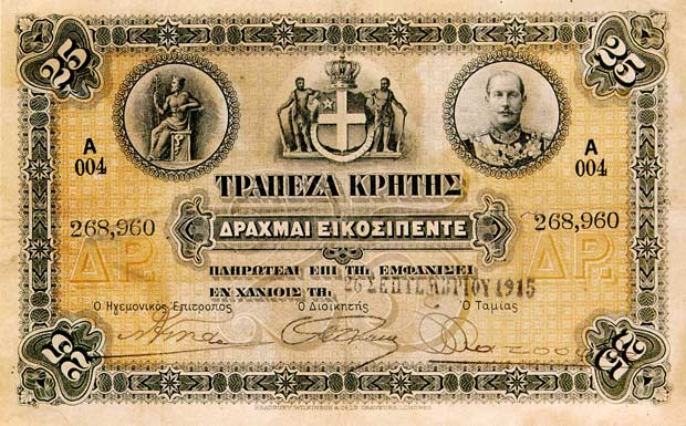 25 drachmas banknote of the Bank of Crete 1899